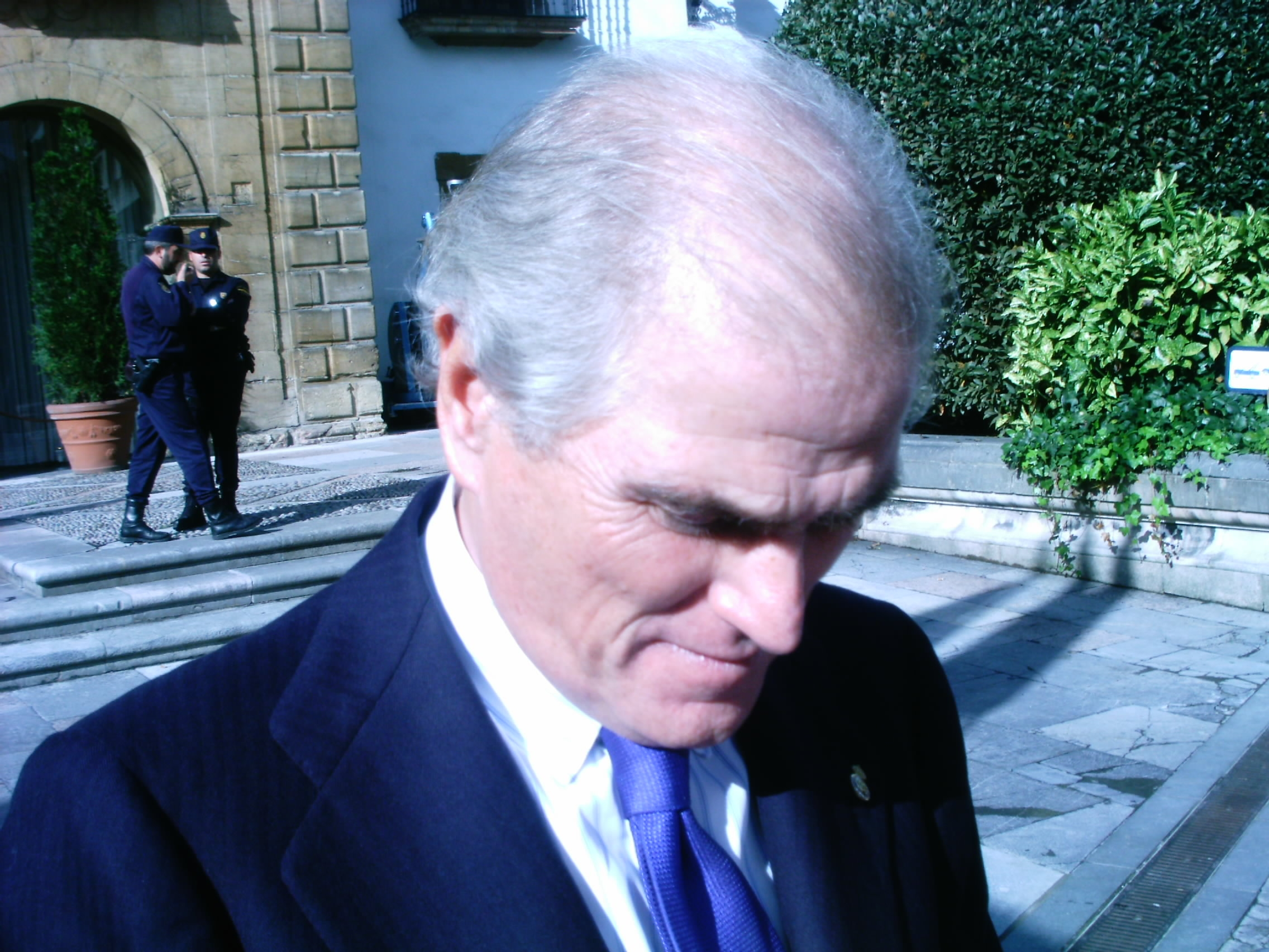 Ramón Calderón, in Oviedo, during the "Principe de Asturias 2006" awards.